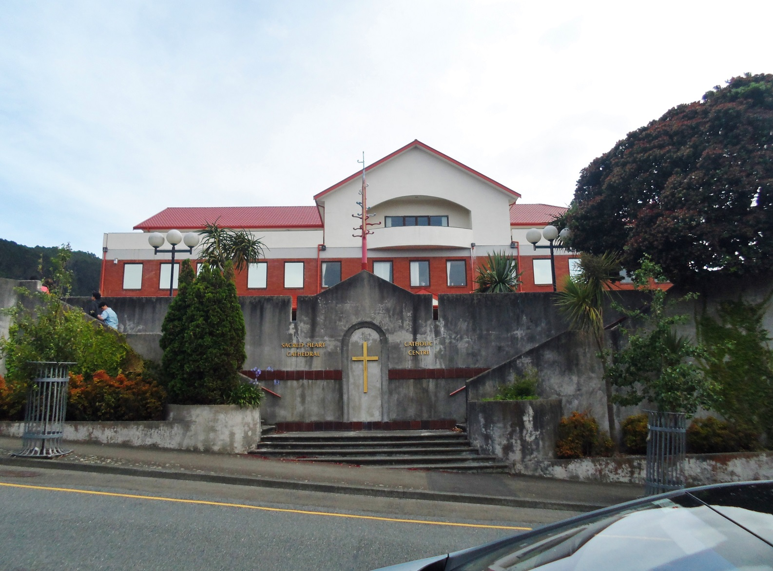 Catholic Centre at Sacred Heart Cathedral, Wellington. In Wellington, New Zealand in 2015.